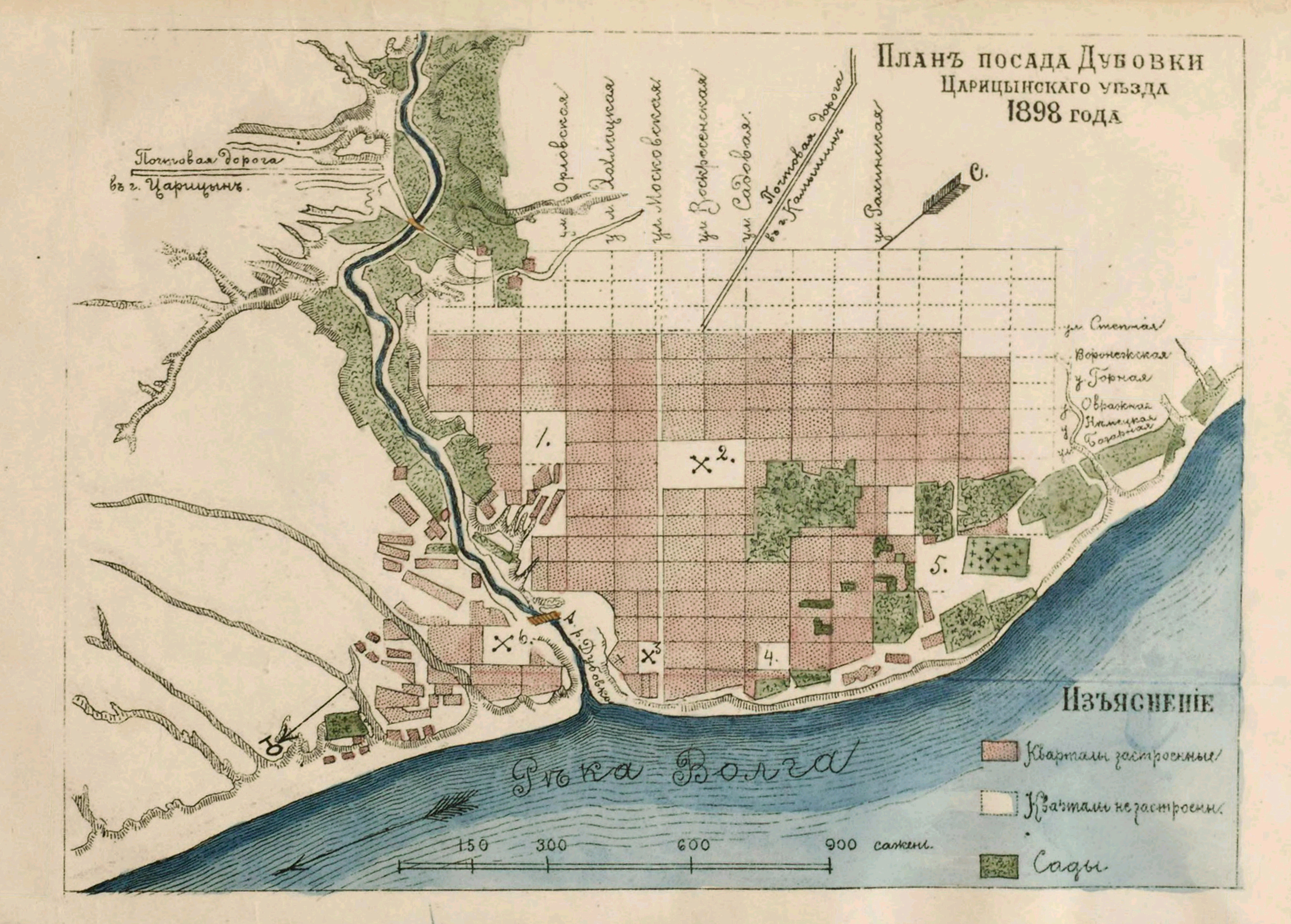 City map Dubovka 1898